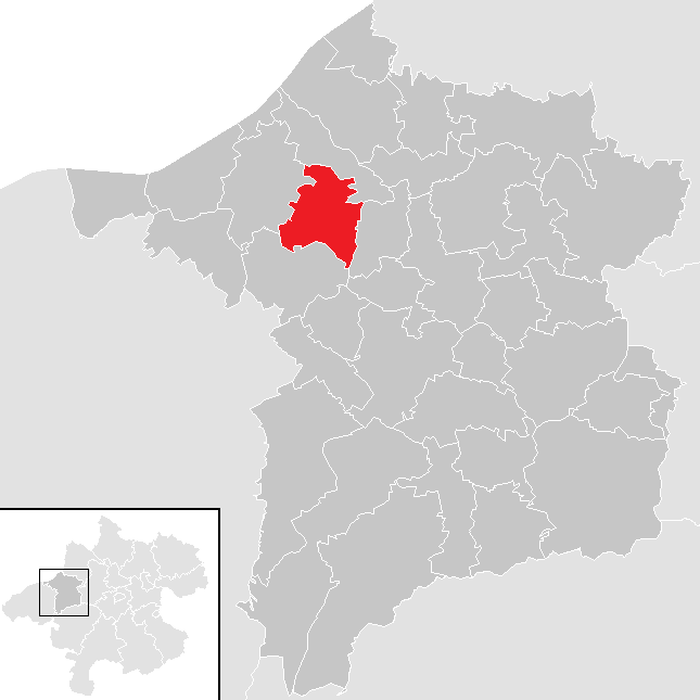 district Ried im Innkreis